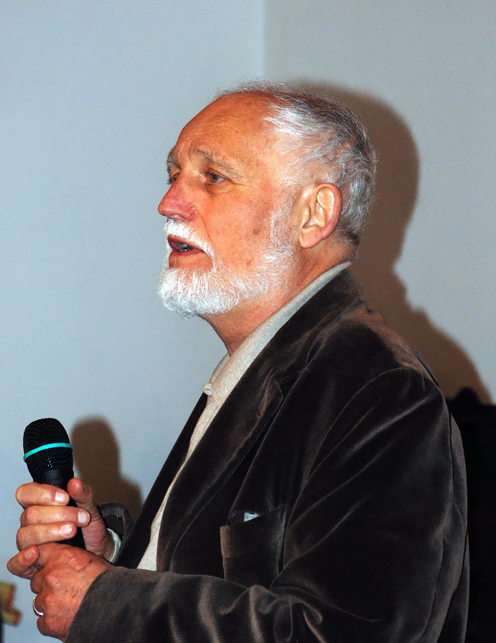 Tito Maniacco, italian poet and author from Udine, during a presentation of one of his books.